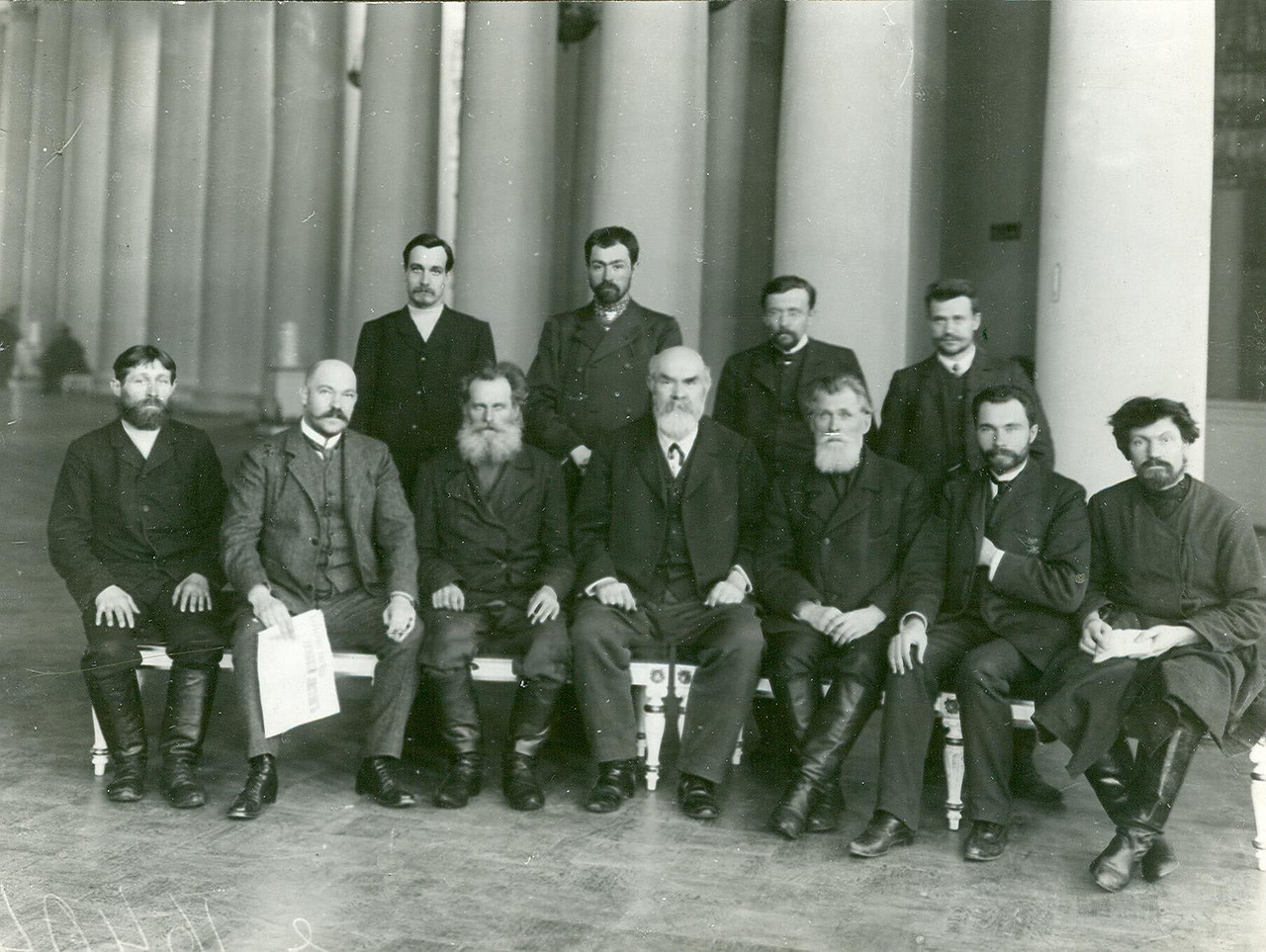 The members of the second Russian State Duma from Kursk Governorate, 1907.